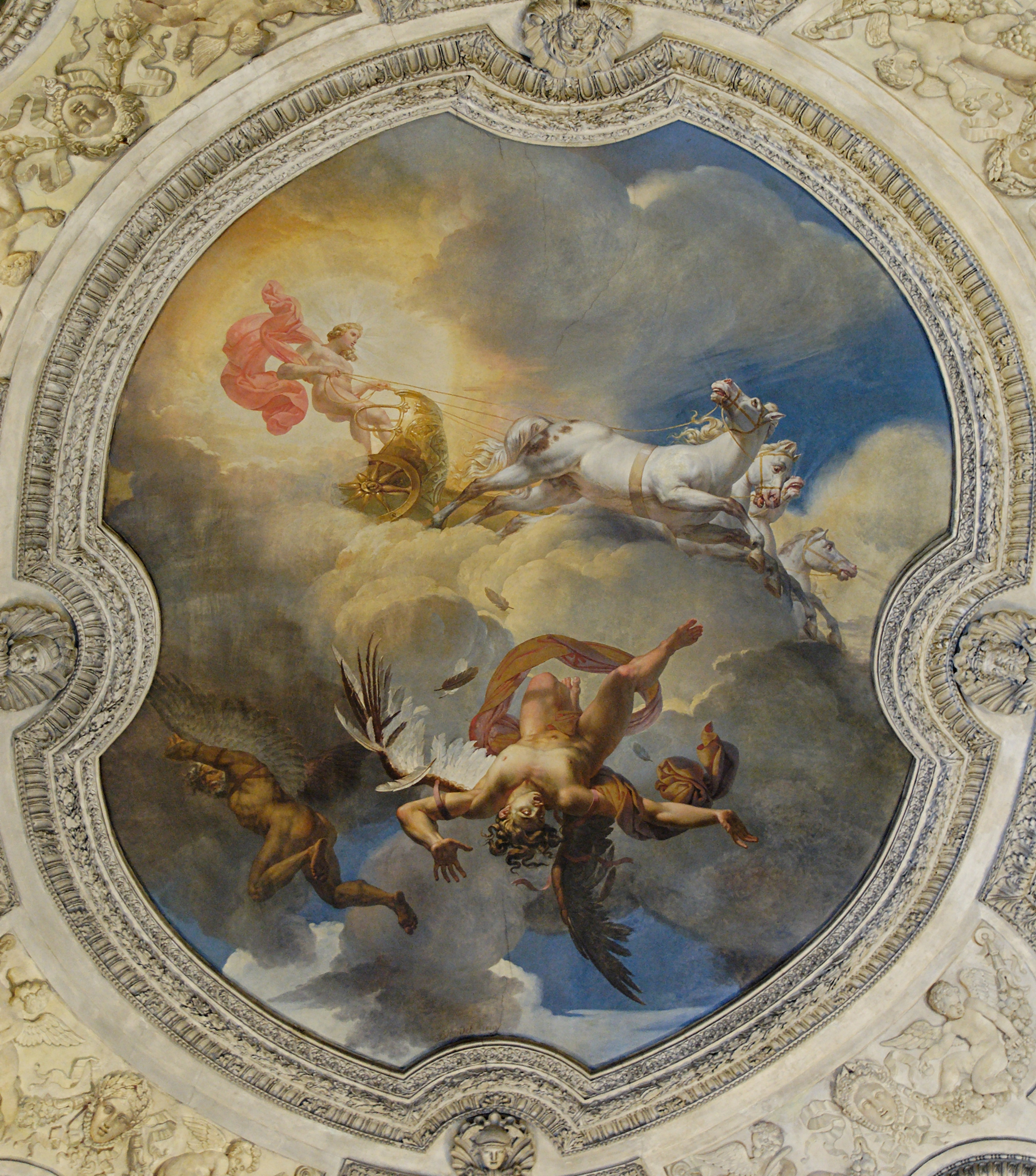 The Sun or the Fall of Icarus, 1819 (dated and signed).